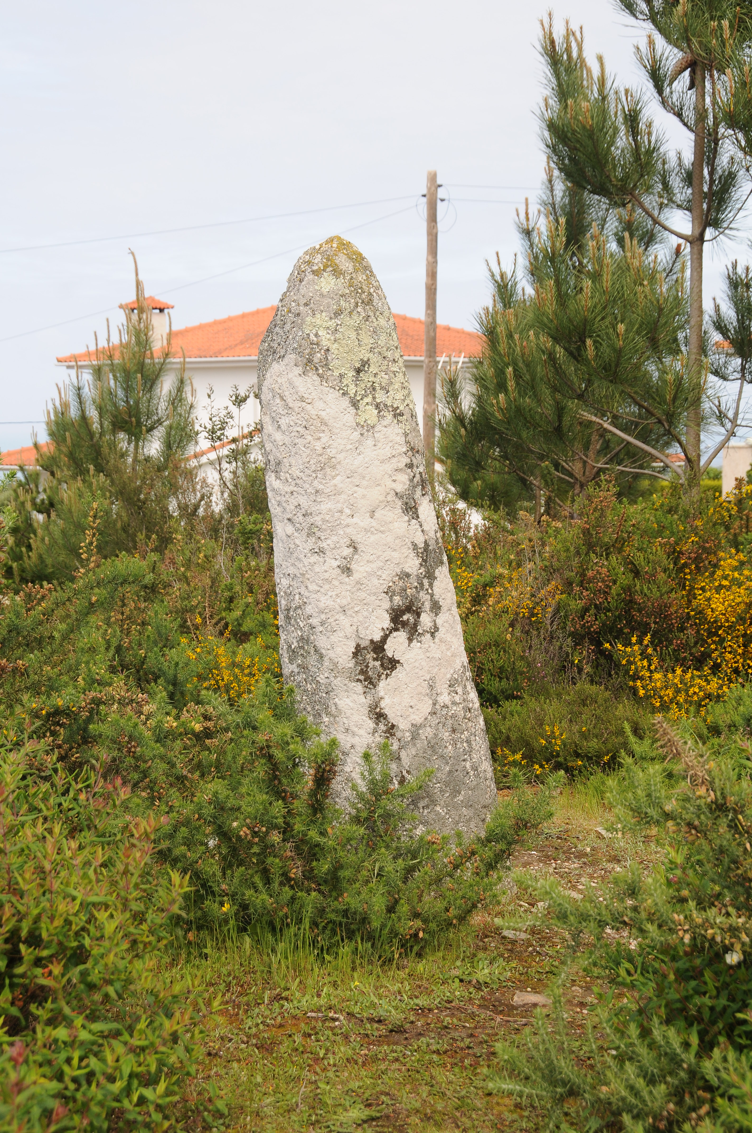 Menir de São Paio de Antas, Esposende Portugal.